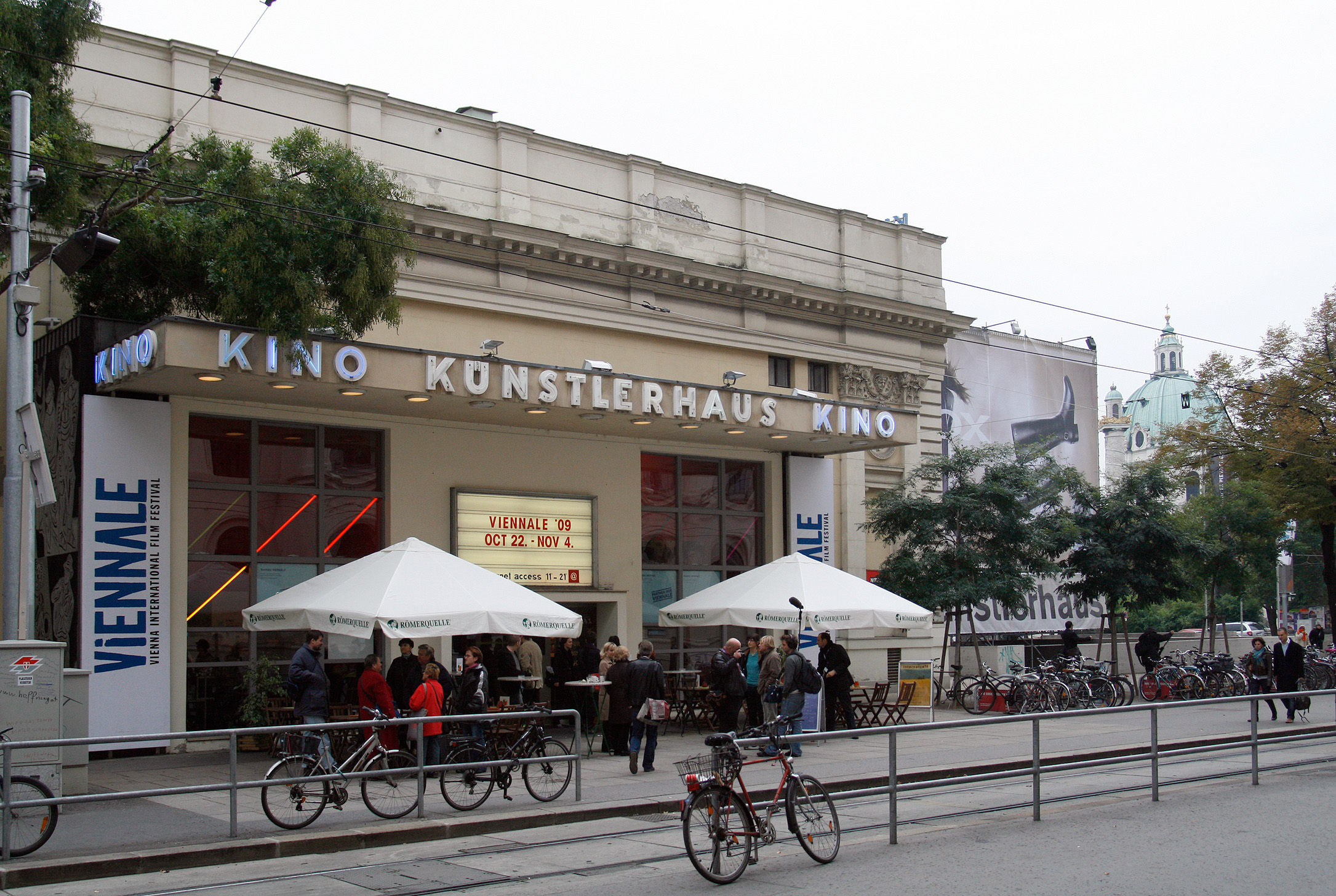 The cinema at the Künstlerhaus during the Vienna International Film Festival 2009.